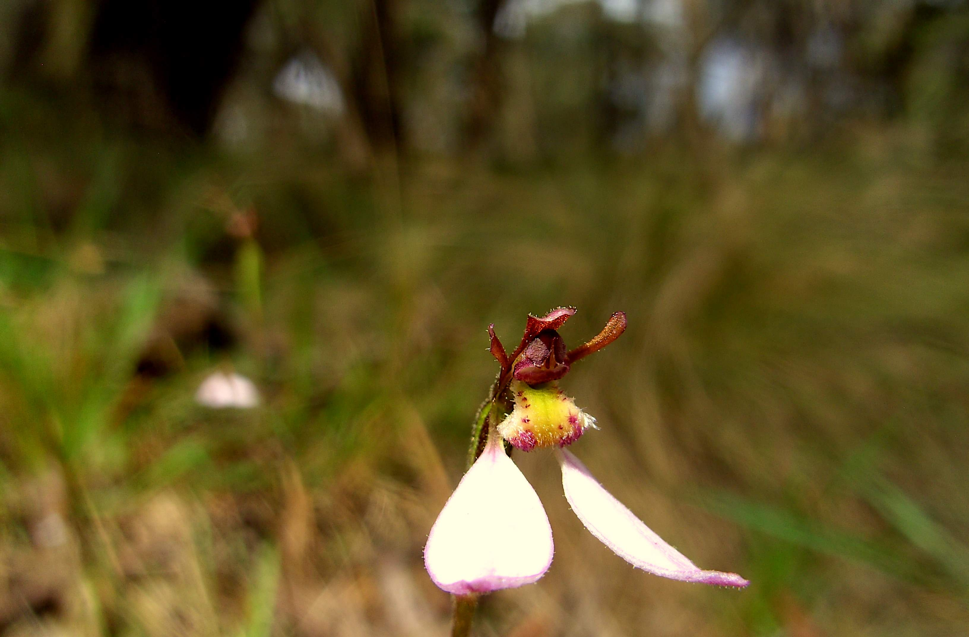 Tiny and delicate